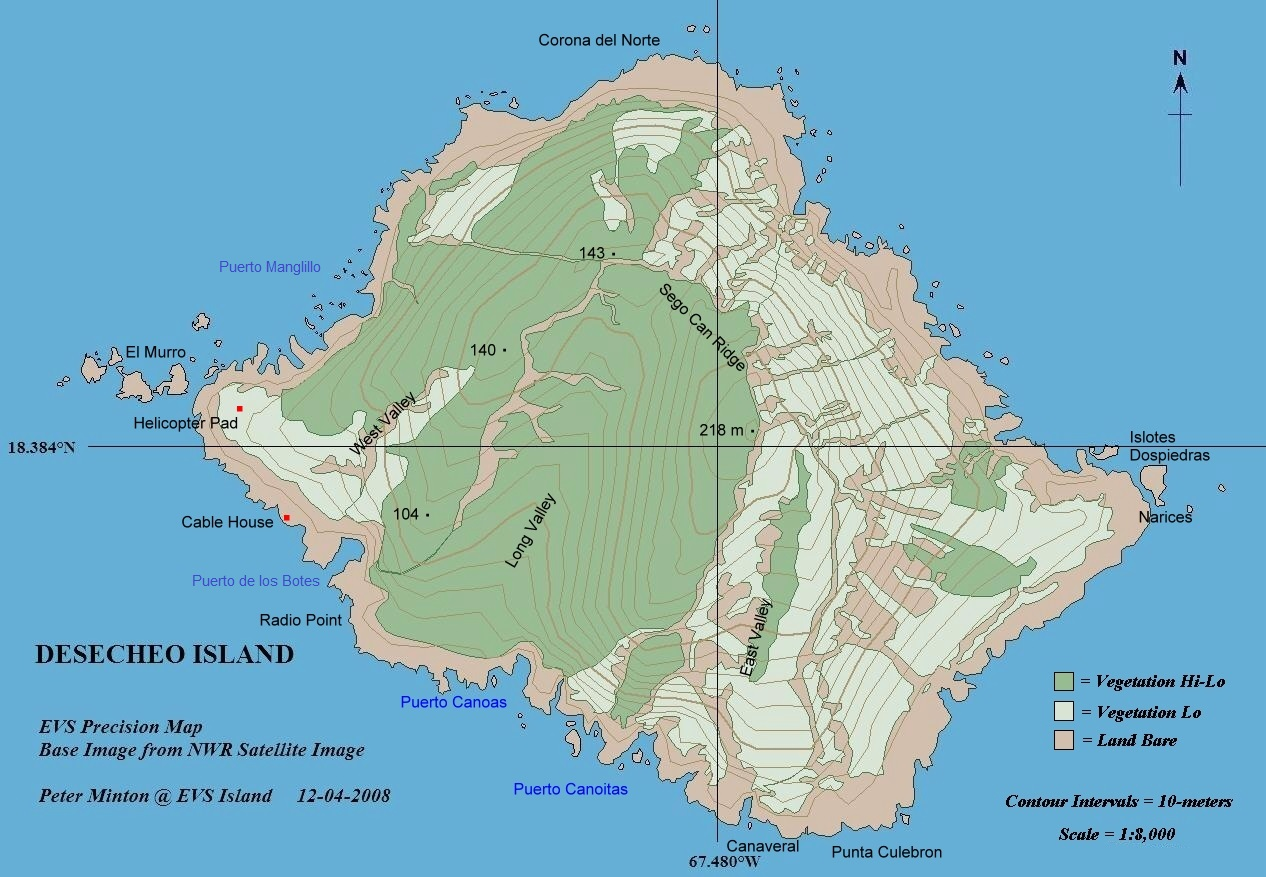 map of Desecheo Island, Puerto Rico Corrections to be made on map: Lobo → los (Puerto de los Botes) Manolillo → Manglillo (Puerto Manglillo)